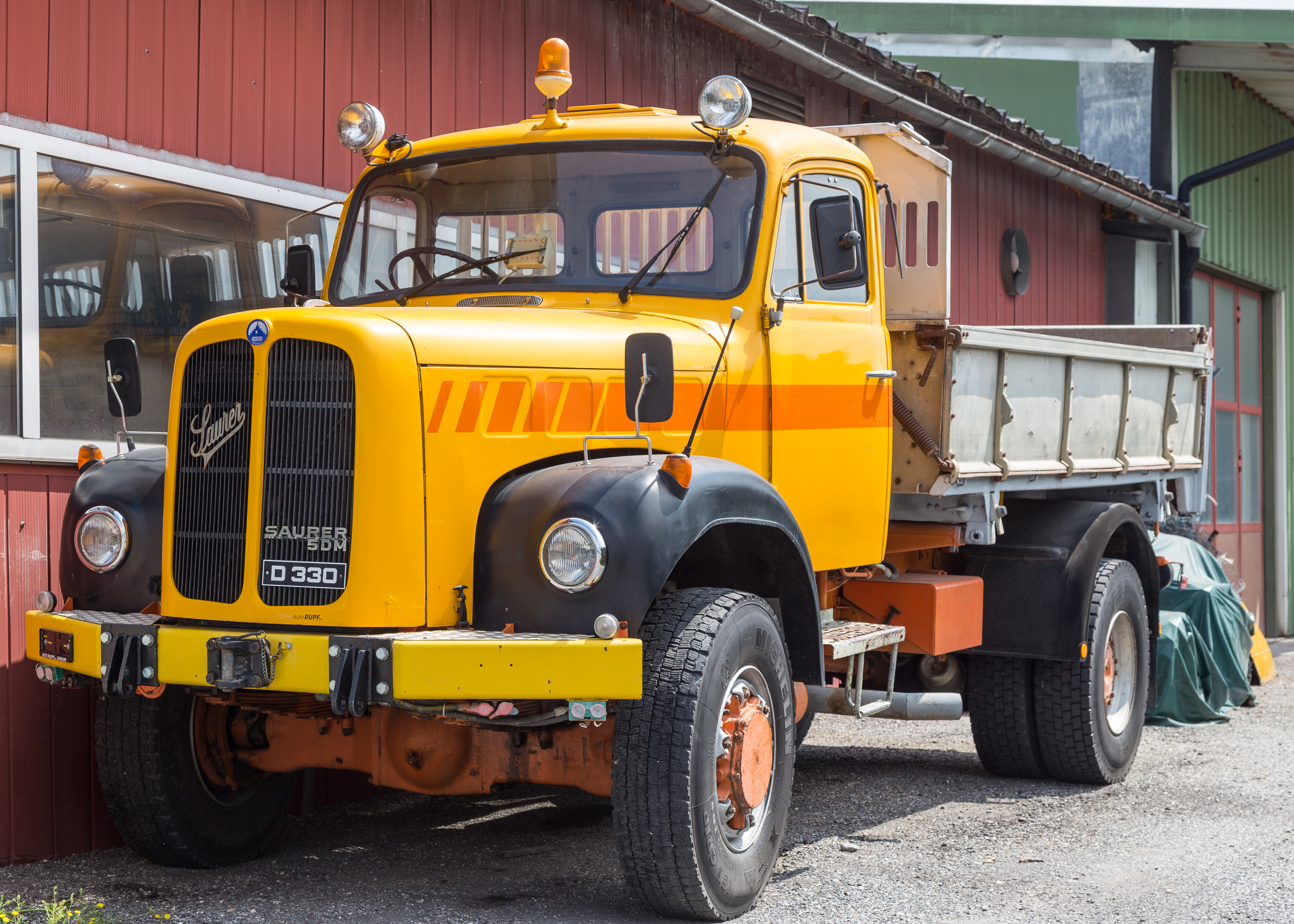 Saurer 5DM tipper truck